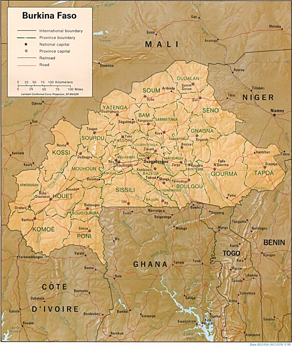 Shaded relief map of Burkina Faso.